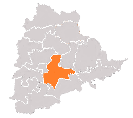 Map of the Indian Loksabha constituency of Bhongir, Telangana